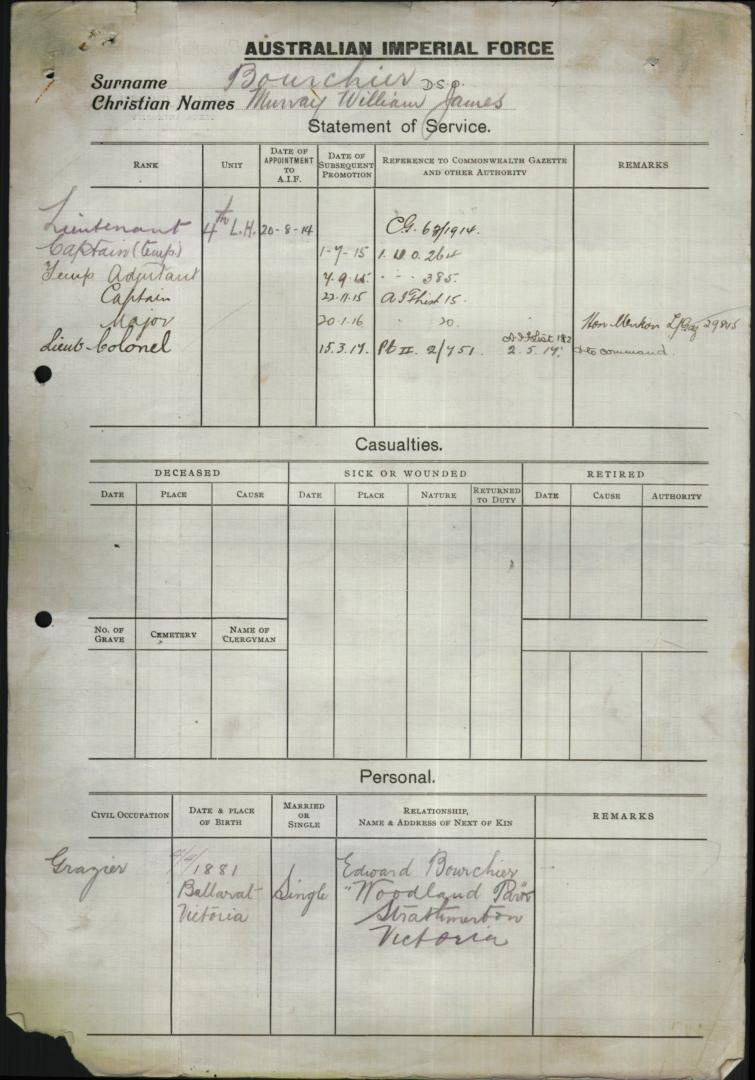 Murray Bourchier, Statement of Service.